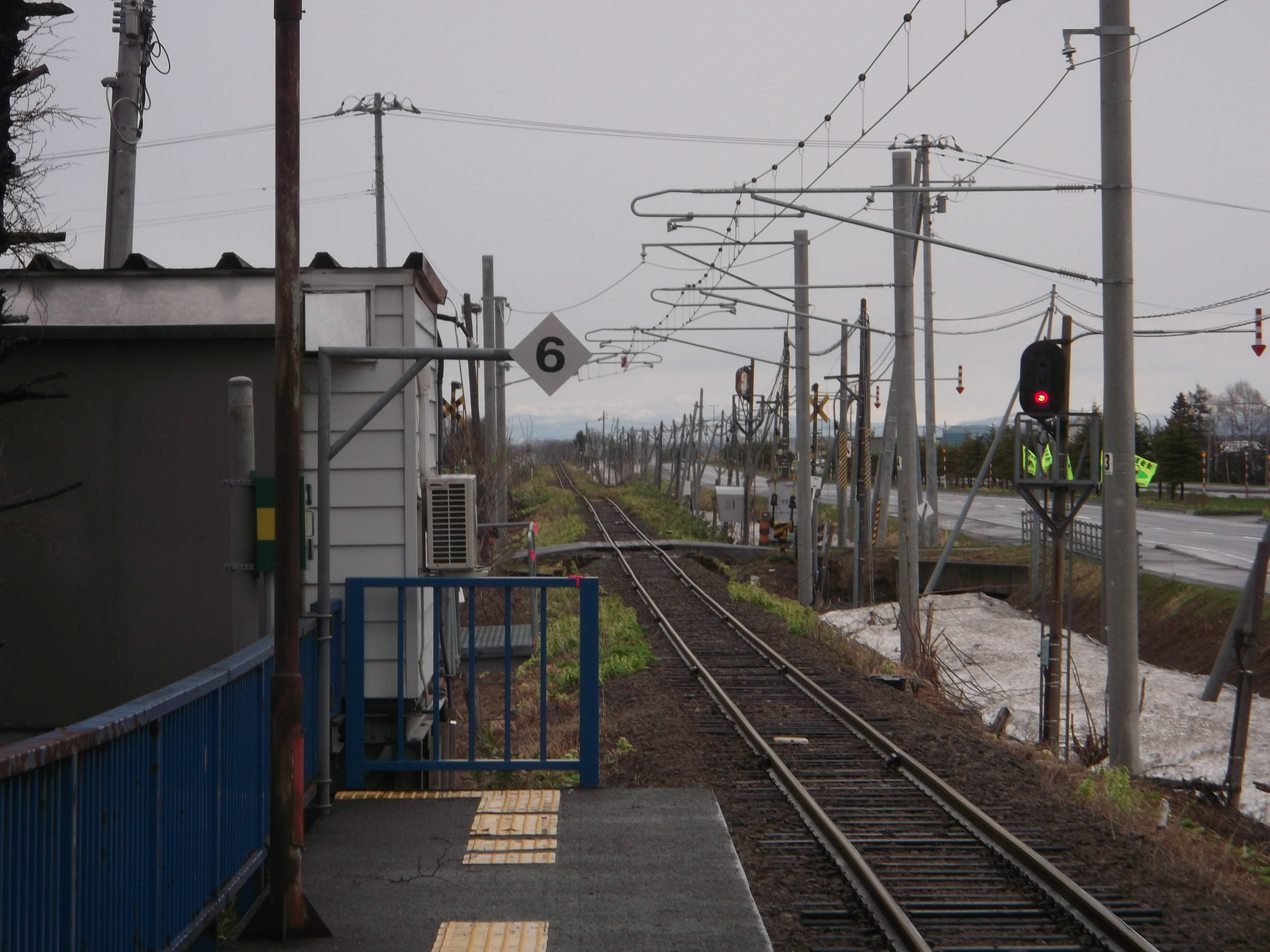 Hokkaido-Iryodaigaku Station platform, view towards Ishikari-Kanazawa